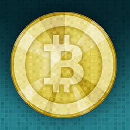 By EFF designer Hugh D'Andrade